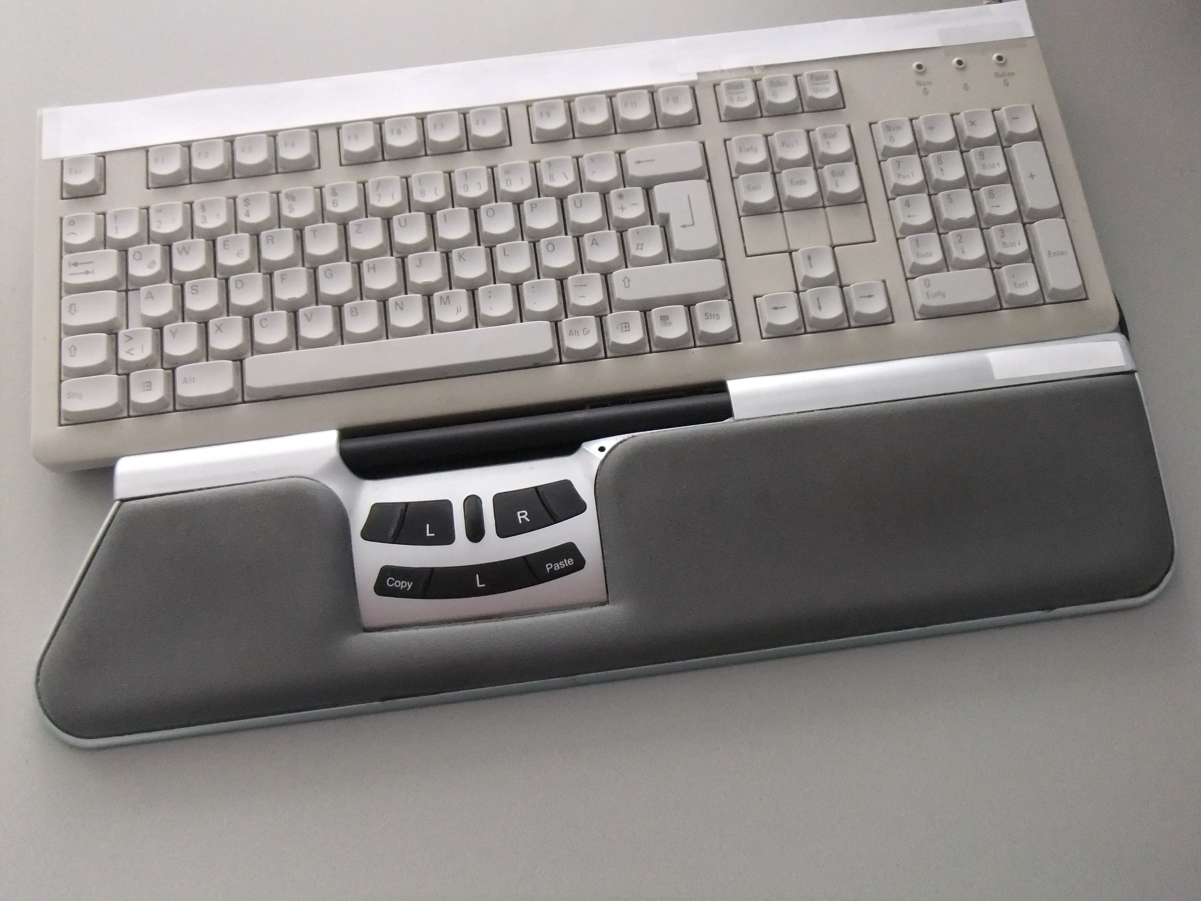 roller bar mouse for pc